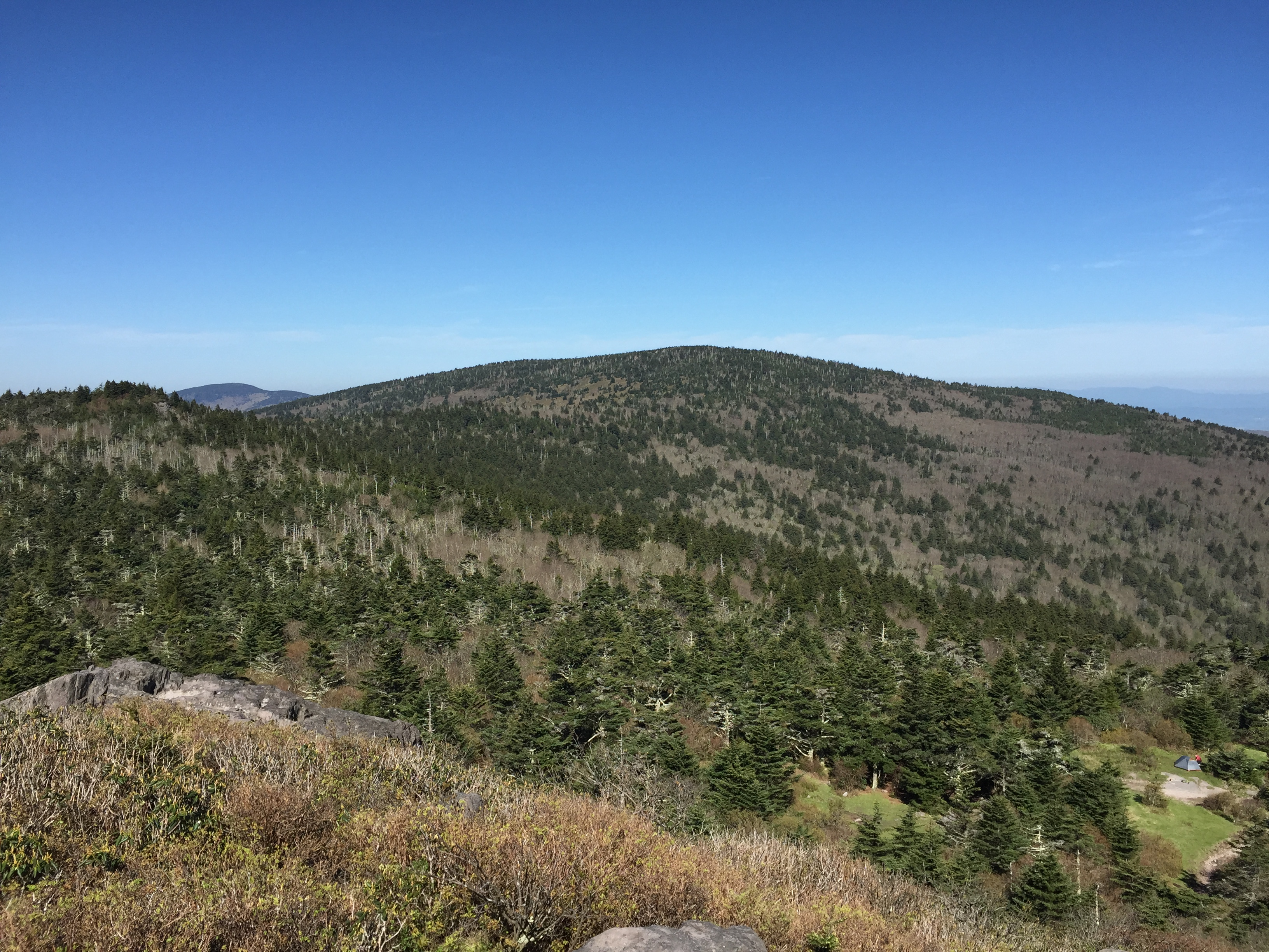 View west-northwest toward Mount Rogers from the summit of Pine Mountain within the Mount Rogers National Recreation Area in Grayson County, Virginia